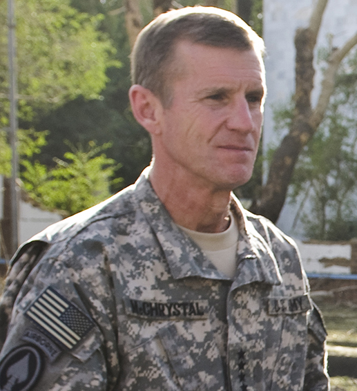 Commander of International Security Assistance Force Gen. Stanley A. McChrystal, U.S. Army near the International Security Assistance Force headquarters, in Afghanistan.